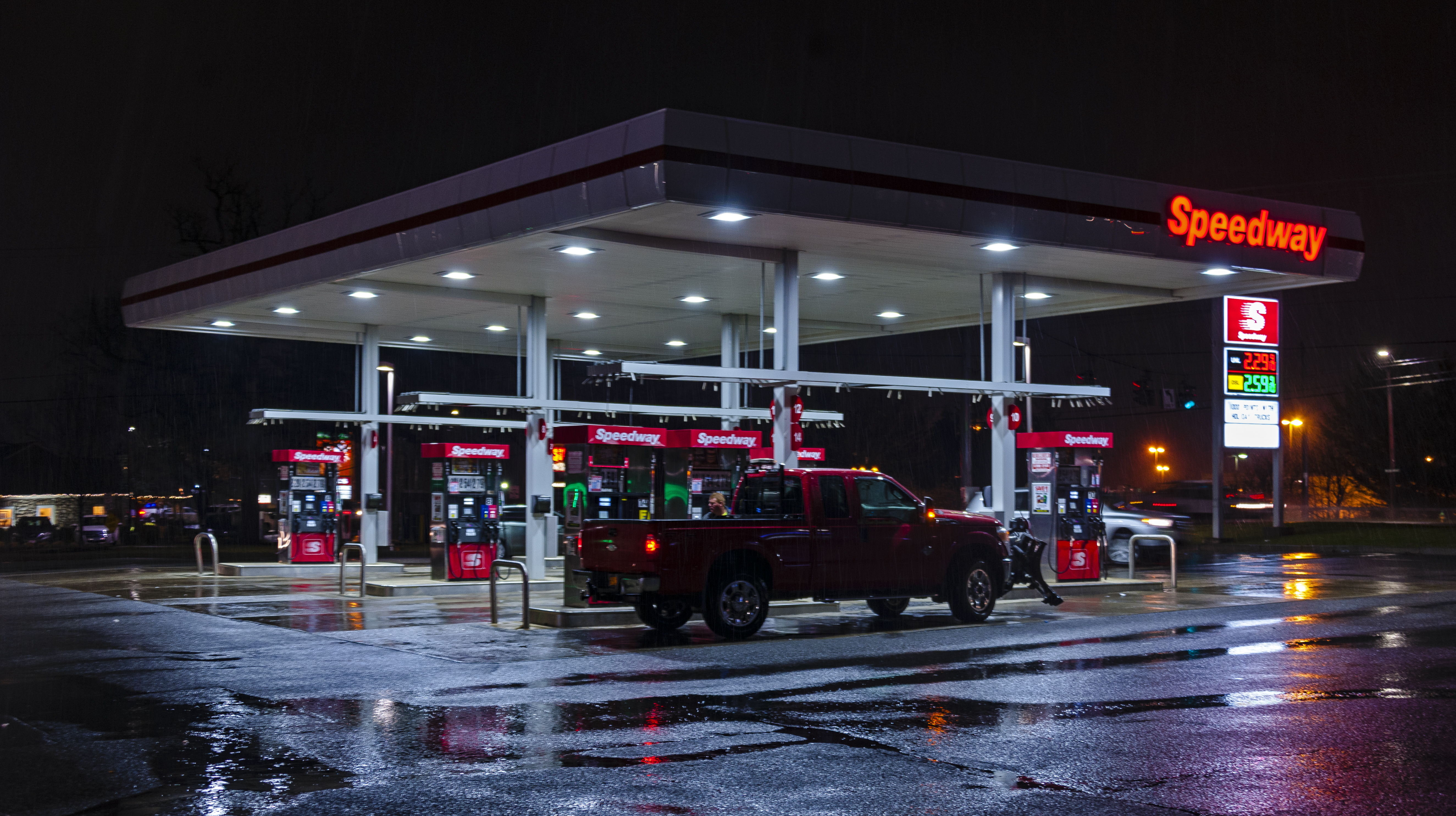 Speedway station along NY 300 in the Town of Newburgh, NY, USA, on a rainy night